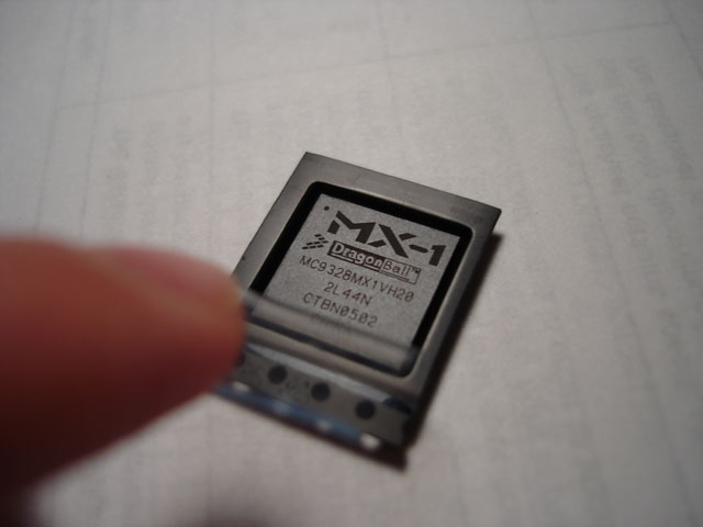 This picture is a late version of the FreeScale DragonBall MX-1 Processor.